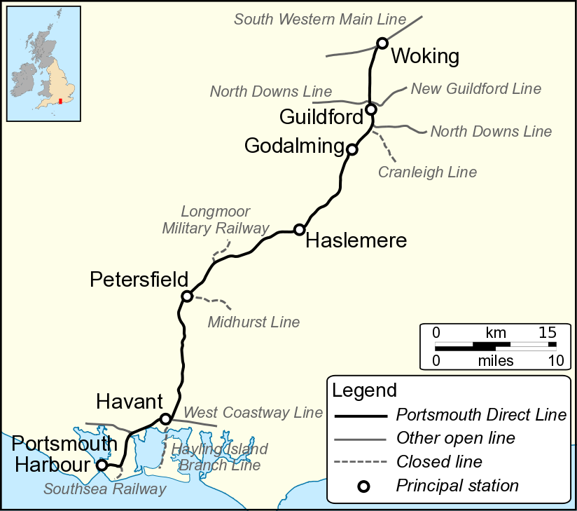 Map of the Portsmouth Direct Line running from Woking (Surrey) to Portsmouth (Hampshire) in south east England. Map data from Open Street Maps.